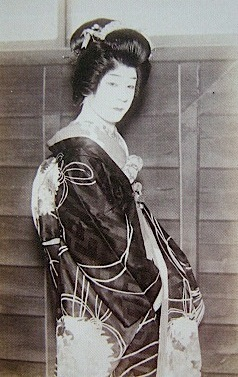 Shōyarō Hanayagi (1894–1965) as O-Chiyo, in the 1938 production of Kyōka Izumi's Nihonbashi.